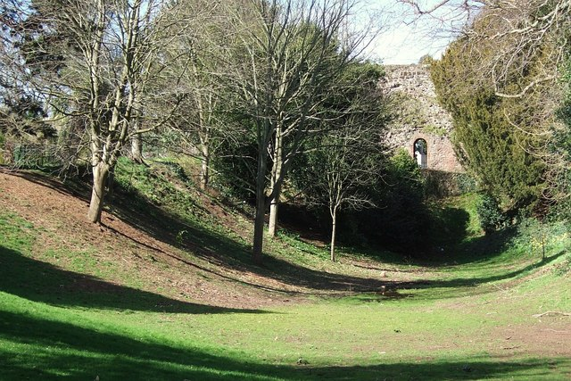 Rougemont Gardens, Exeter. Another photo of 275436. This is the little valley referred to which is now used each summer for outdoor theatre productions. In the background, a little door in the city walls connects the gardens to Northernhay Gardens.